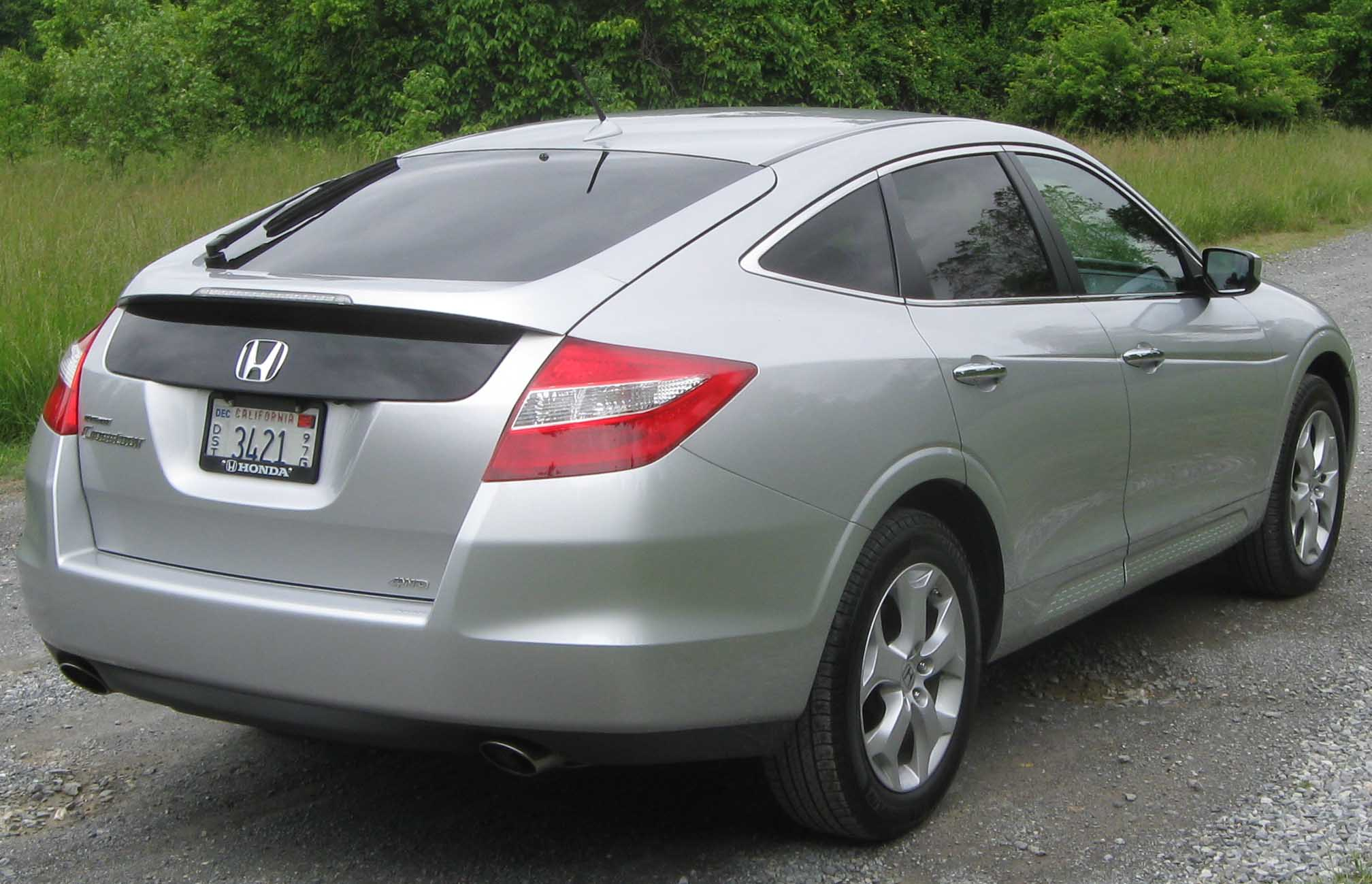 2010 Honda Accord Crosstour photographed in Accokeek, Maryland, USA.